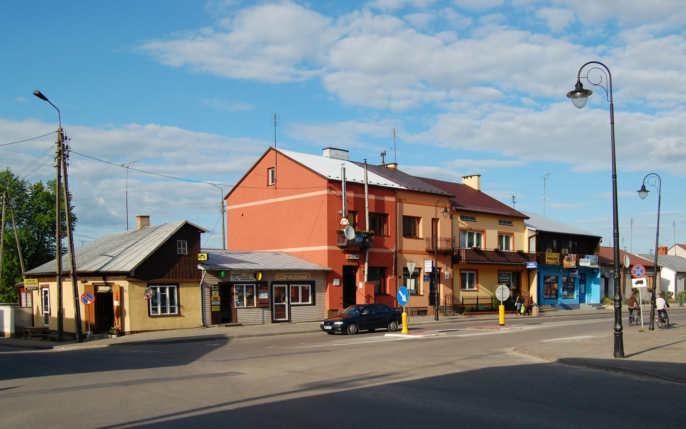 Kosciuszki Street in Żelechów, Poland